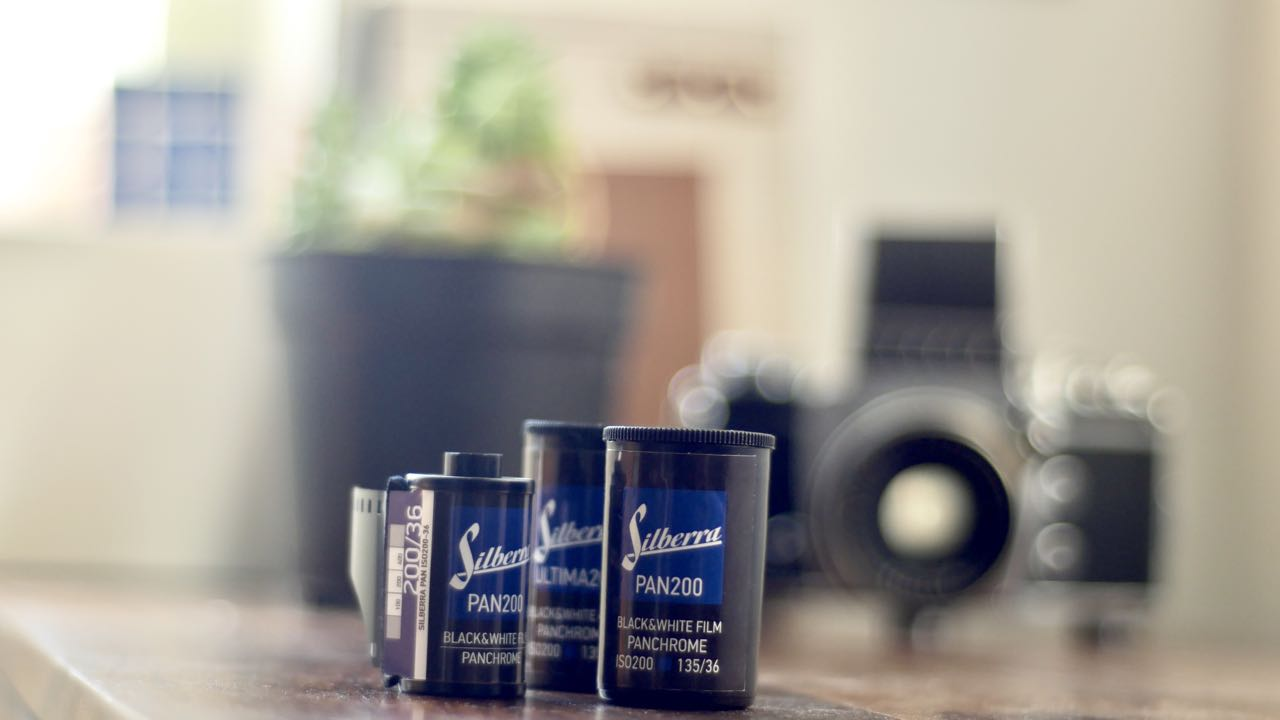 Silberra PAN 200 BlackAndWhite